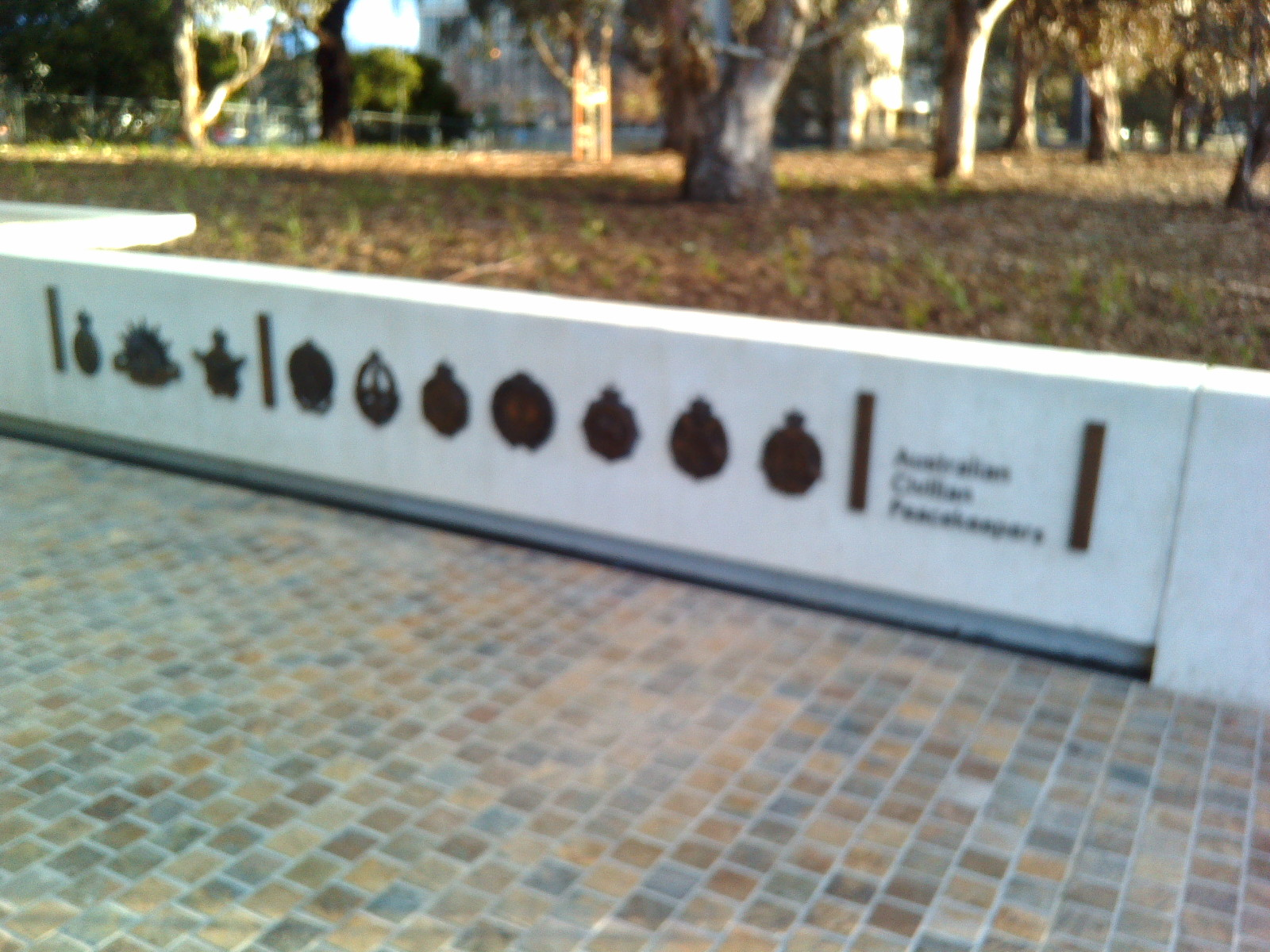 A view of the Peacekeepers Memorial, Canberra showing logos of the military and police forces whose members have been peacekeepers